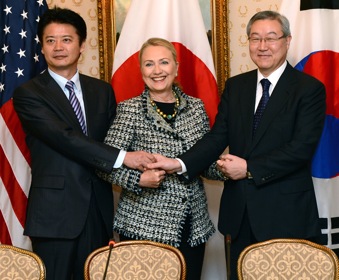 U.S. Secretary of State Hillary Rodham Clinton meets with Japanese Foreign Minister Koichiro Gemba and Korean Foreign Minister Kim Sung-hwan, at the Waldorf Astoria in New York City, September 28, 2012. [State Department photo/ Public Domain]